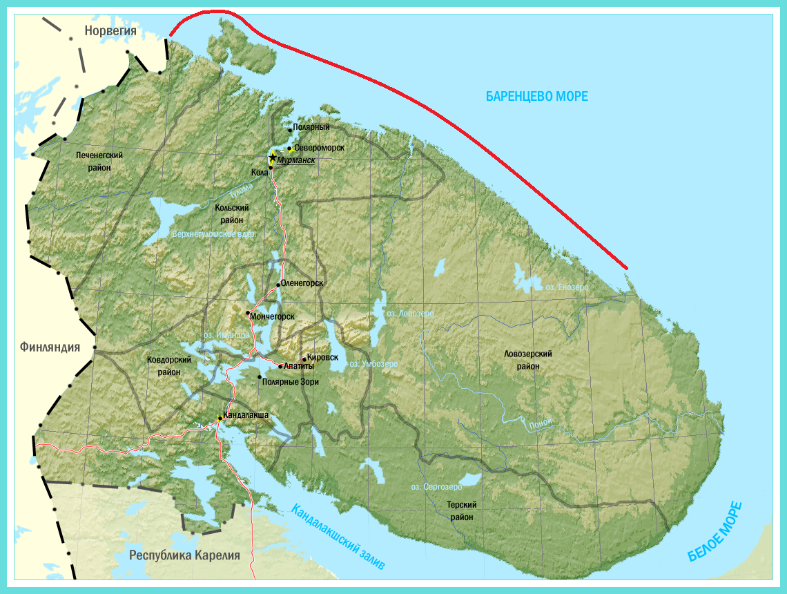 Murman Coast on map of Murmansk region.